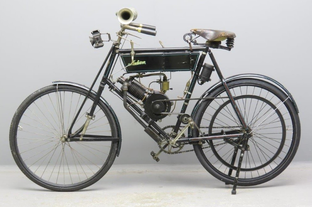 Madison 211cc 2HP motorcycle, left side